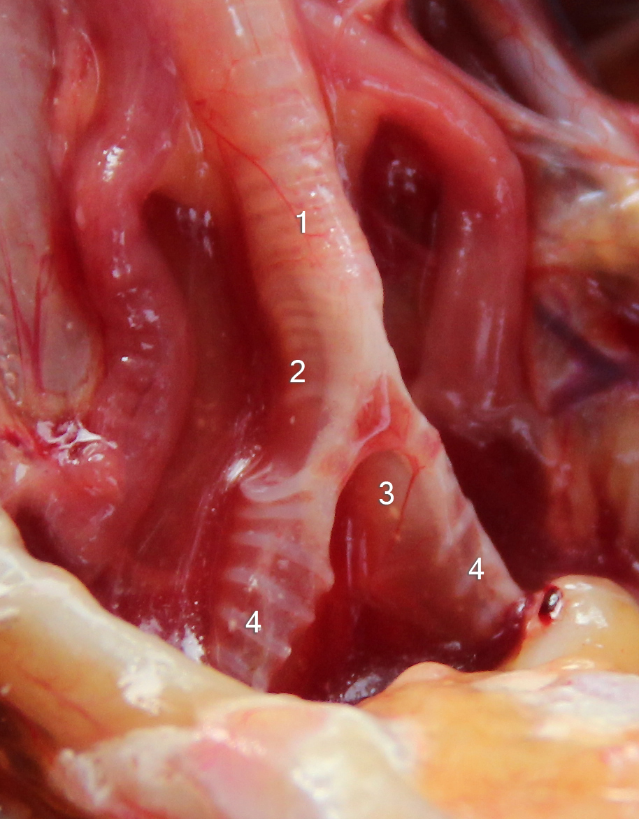 Syrinx of a chicken